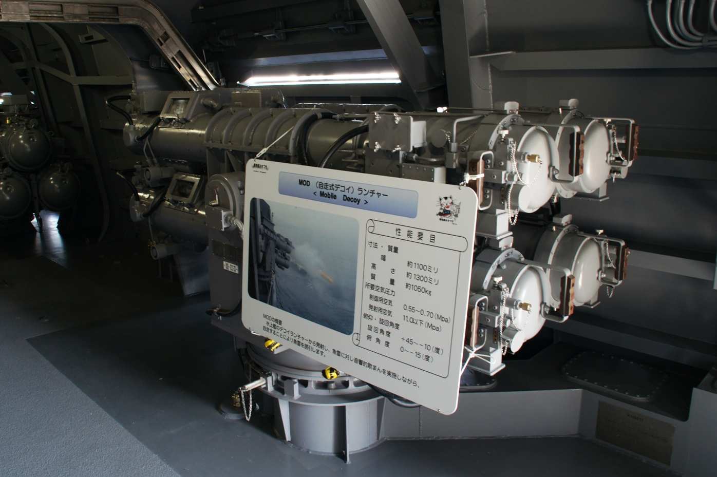 Mobile decoy launcher on JS-115 Akizuki